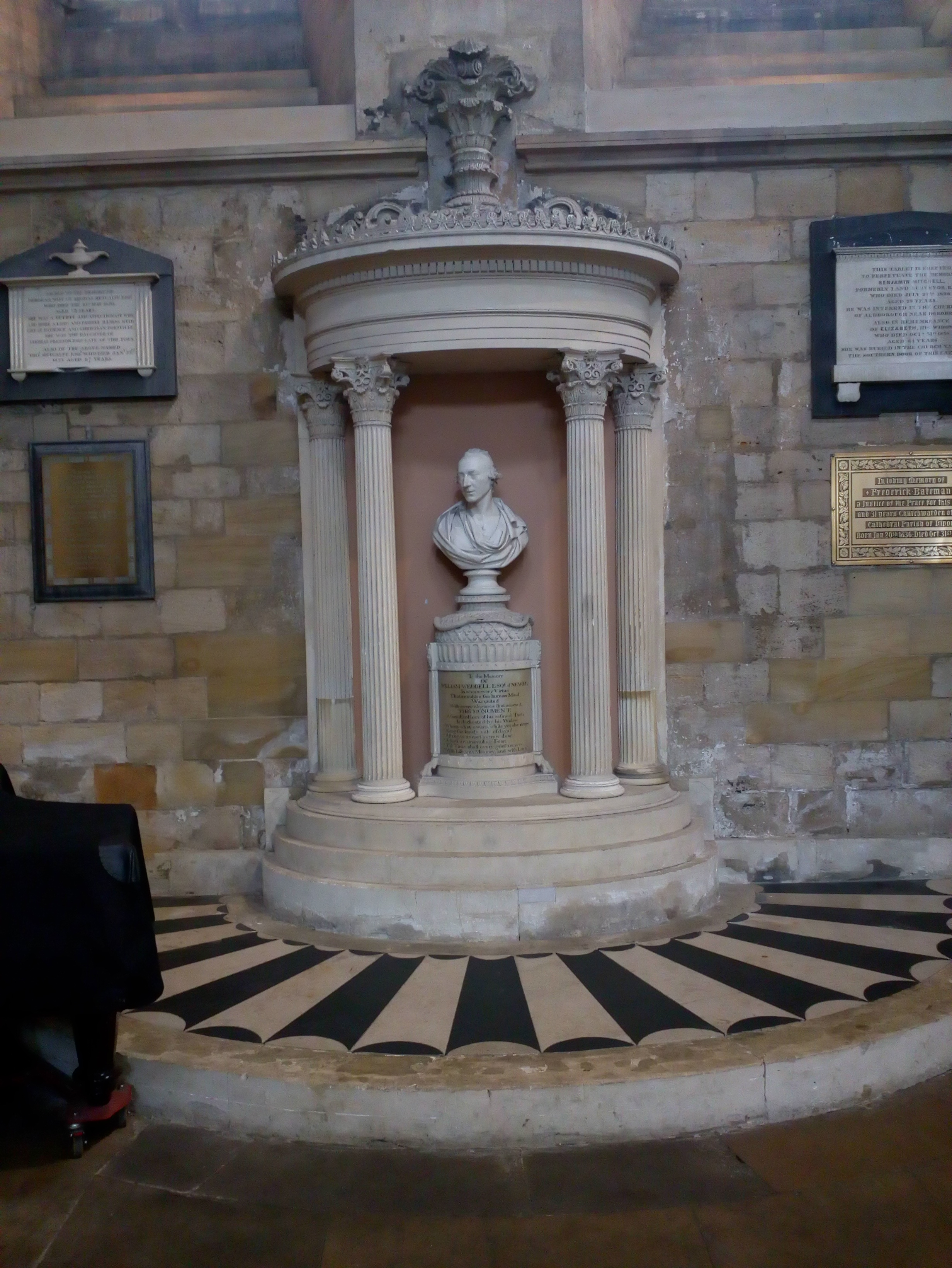 A bust by Joseph Nollekens of William Weddell in Ripon Cathedral. The surround is based on one he may have seen on his grand tour.